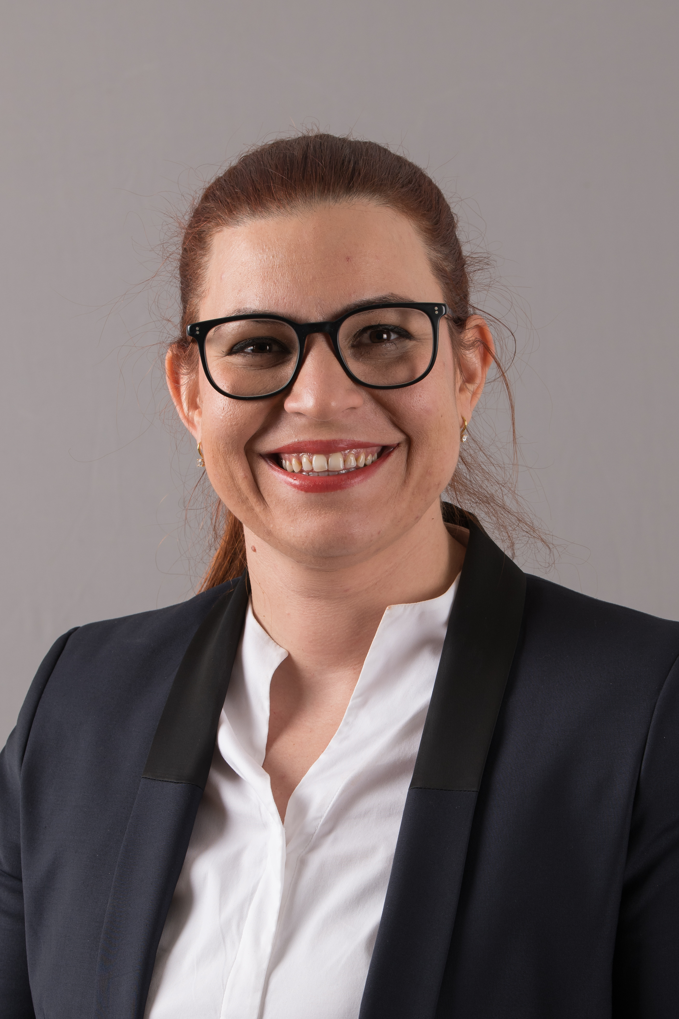 13/12/17, Bregenz/Vorarlberg, Landtagsprojekt Vorarlberg. Picture shows Nina Tomaselli (Grüne), delegate to the Vorarlberger Landtag since 2014